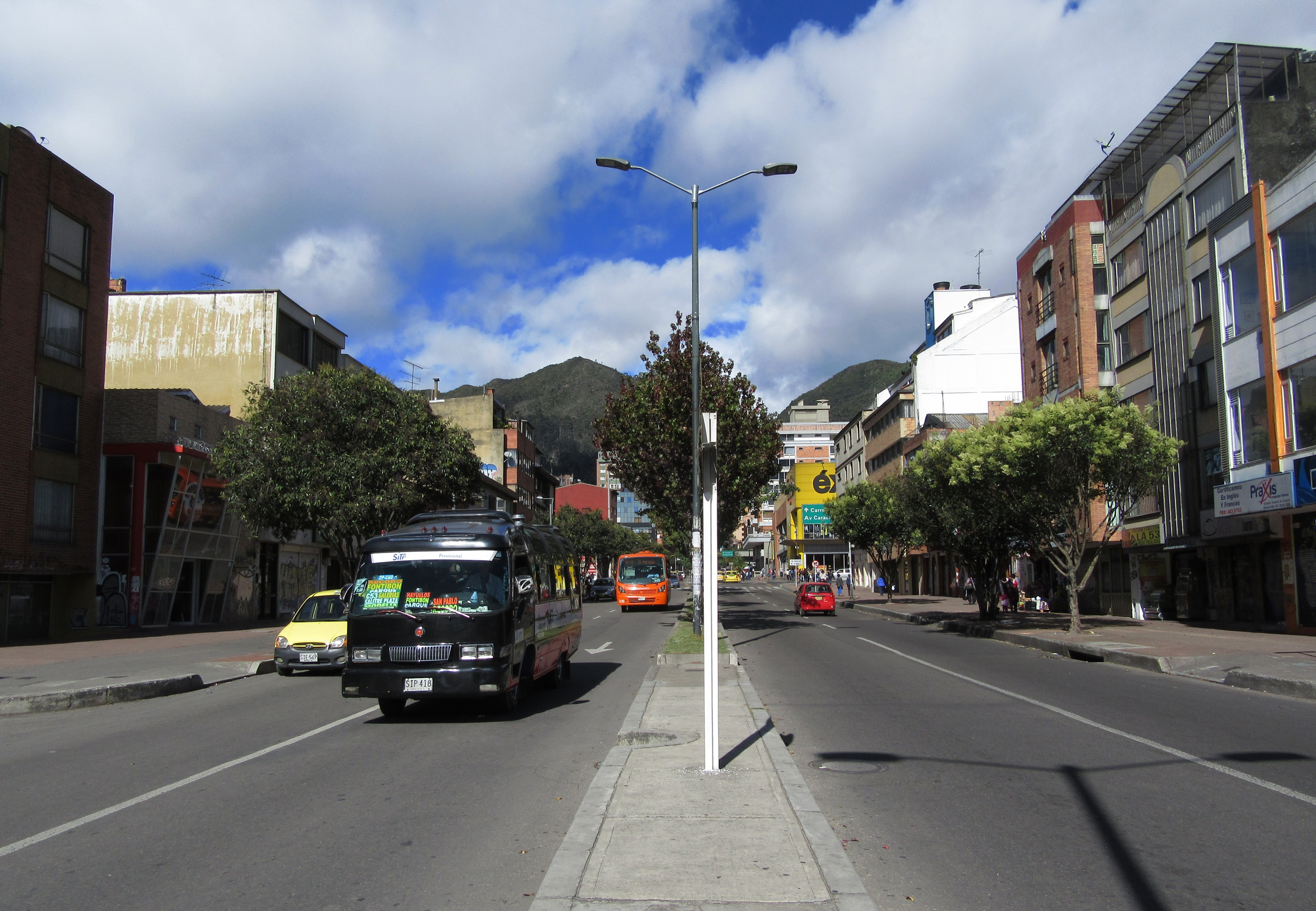 Bogotá